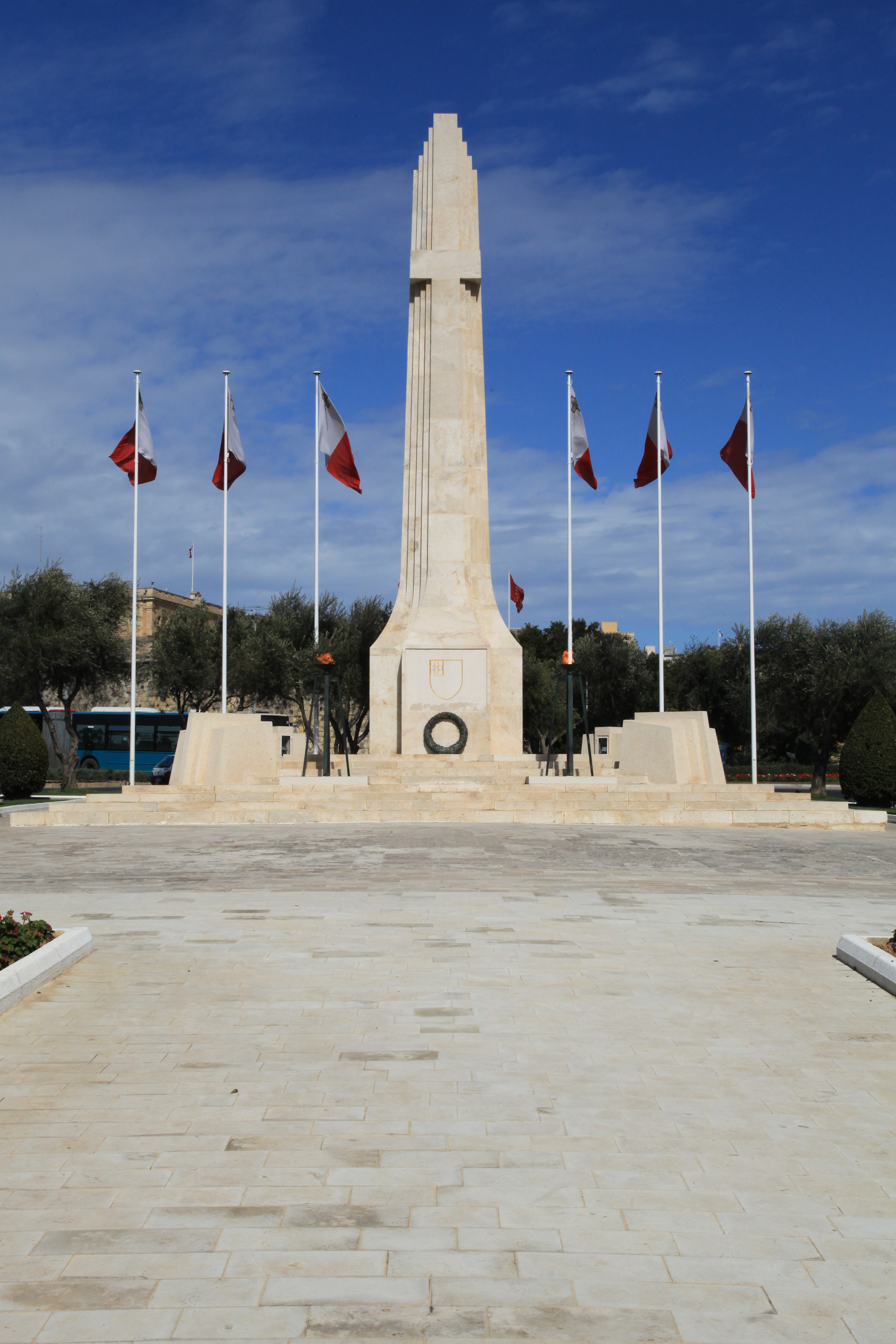 Floriana War Memorial at Triq Sant' Anna in Floriana, Malta